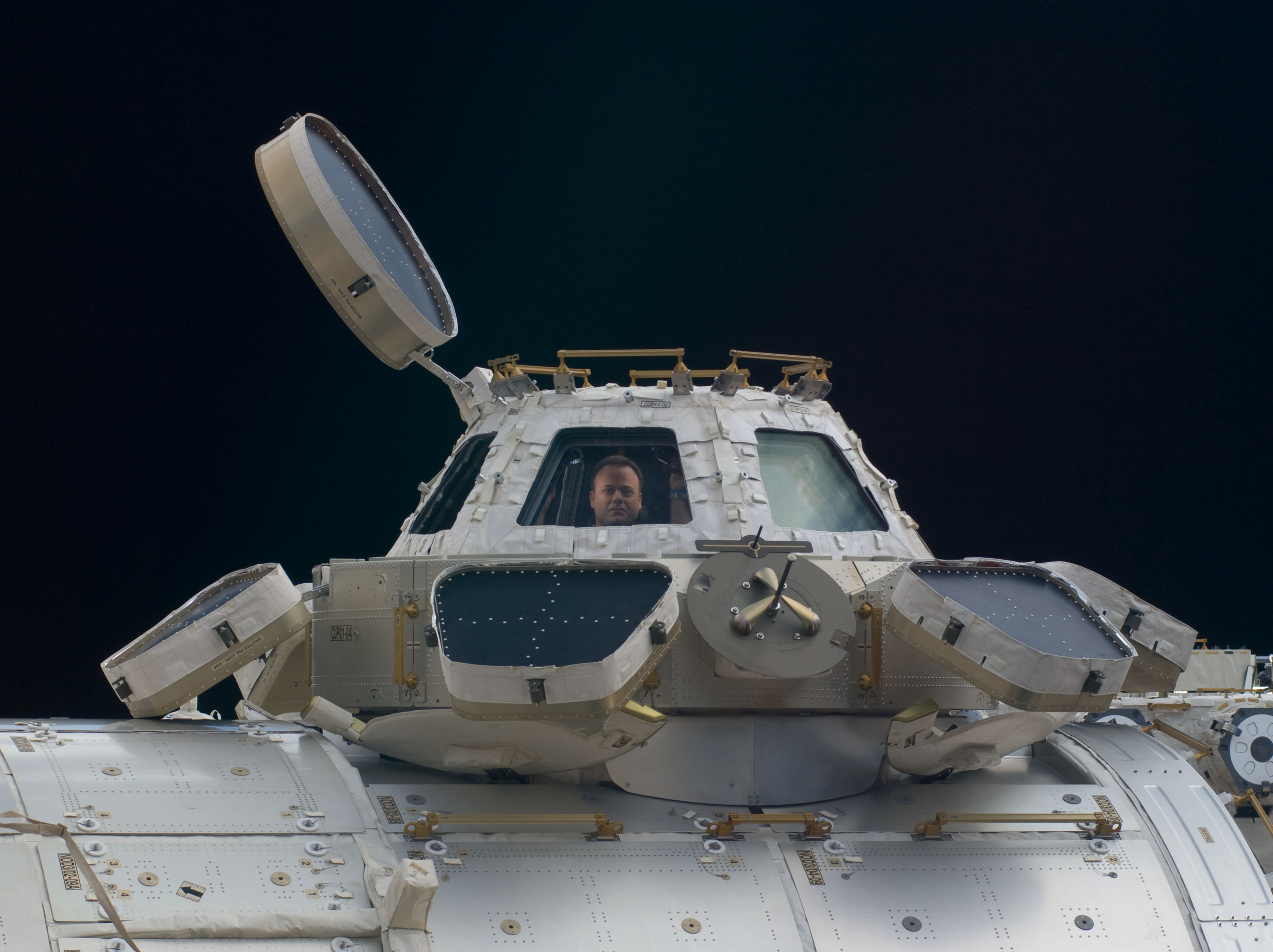 Backdropped by the blackness of space, NASA astronaut Ron Garan, Expedition 28 flight engineer, is pictured in a window of the Cupola of the International Space Station.